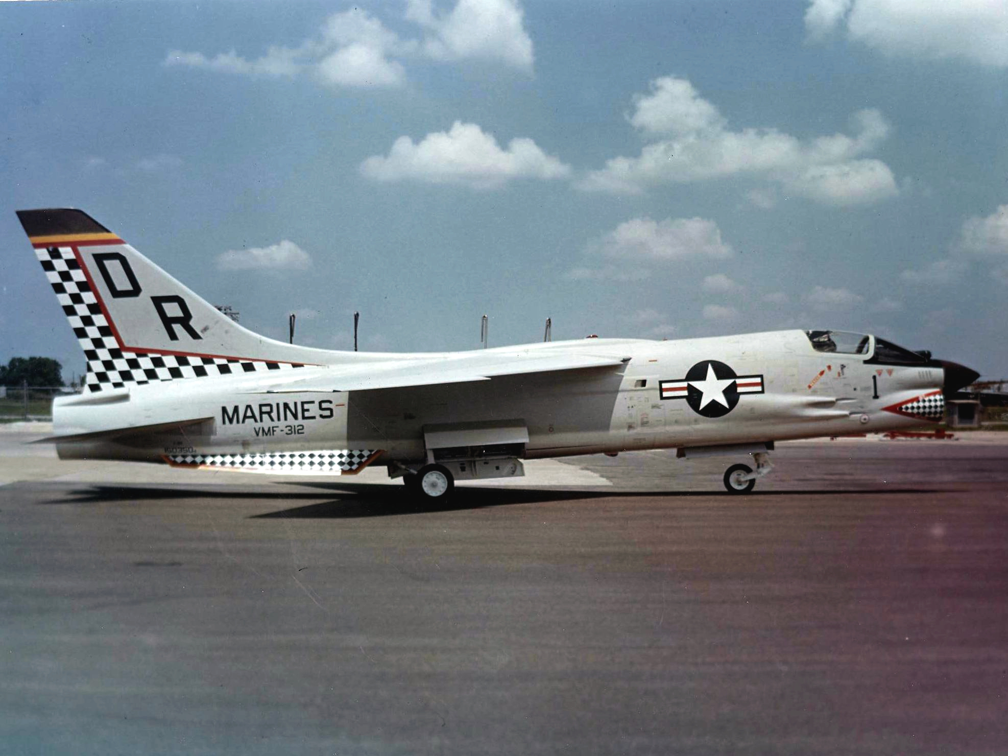 A U.S. Marine Corps Vought F-8E Crusader (BuNo 150350) from Marine Fighter Squadron 312 (VMF-312) "Checkerboards". This aircraft later flew into heavy overcast and crashed ca. 100 km east of the Thanh Hoa Province, North Vietnam, due to a gyro failure on 7 March 1967 while in service with VF-191 (NM-111). The pilot, Lt. Robert Lester Miller, was killed.